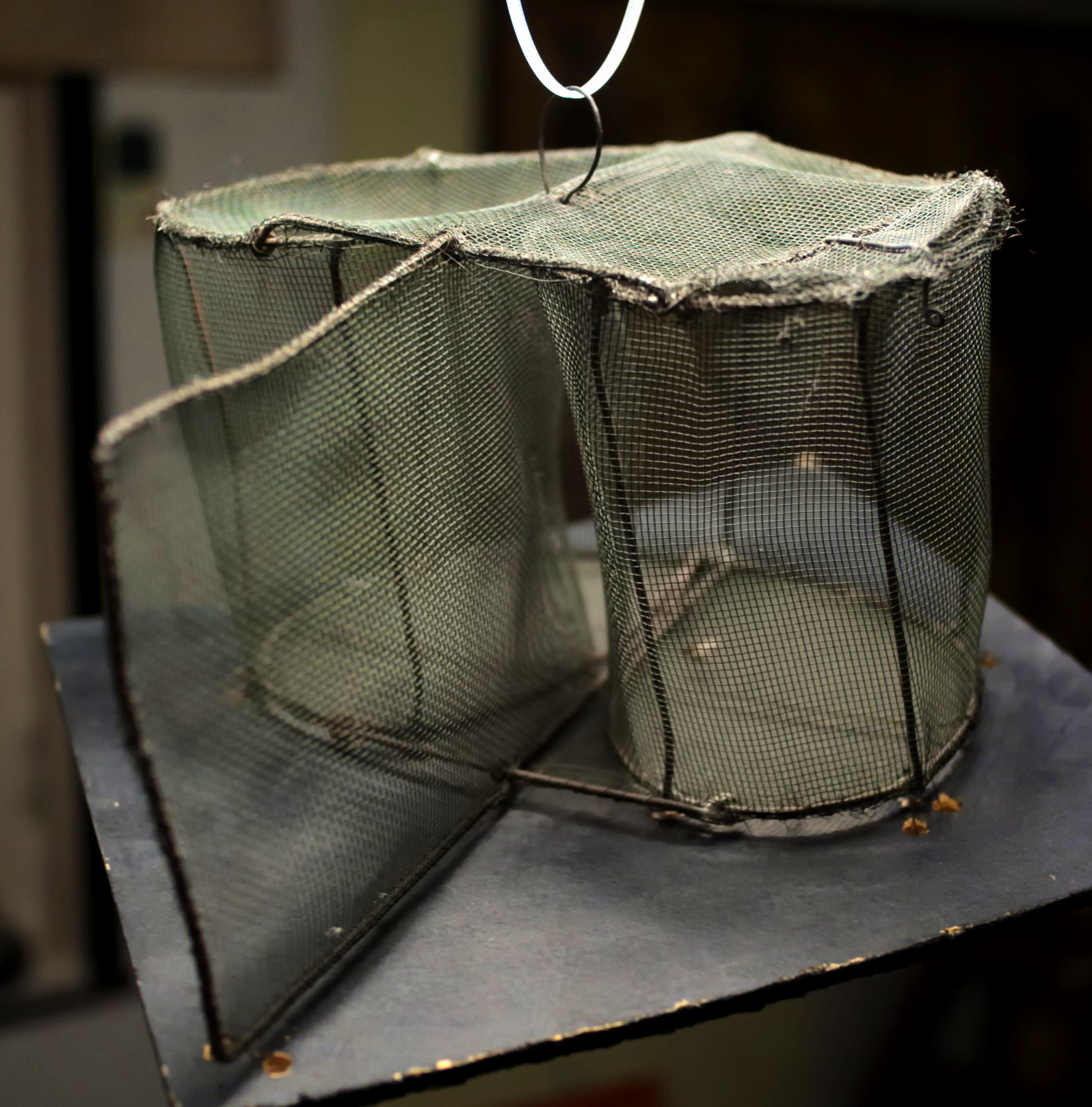 A fish trap model, made by Tauno Kosonen 1955.